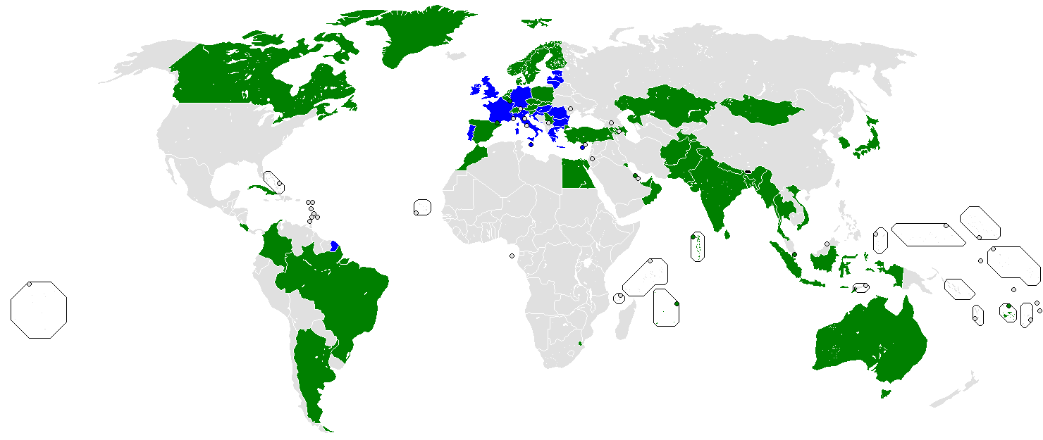 Dark green - diplomatic relations, blue - the rest of the EU members (Bhutan has diplomatic relations with the EU, but not individually with those in blue)